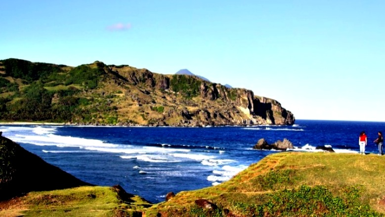 Tourists at Signal Hill in Imnajbu, Batanes!